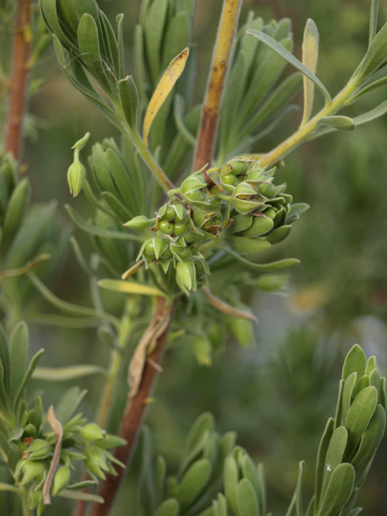 Suriana maritima, South Miami, FL, USA